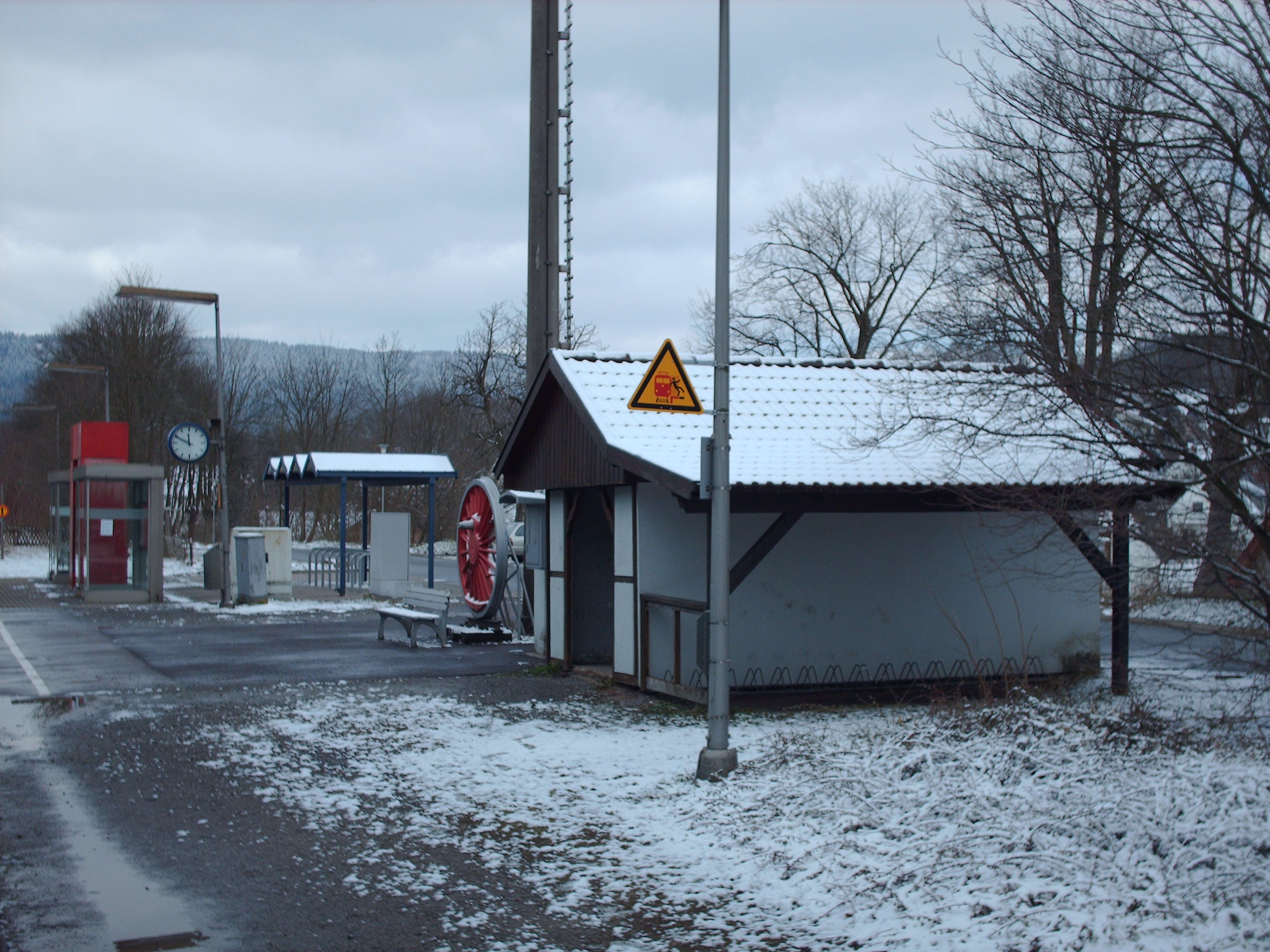 Sandebeck station, Steinheim, Germany check usage